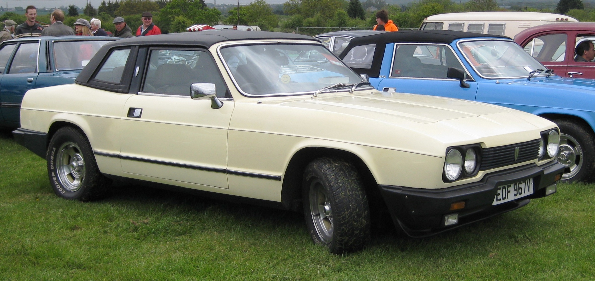 Reliant Scimitar GTC 1980 at Battlesbridge Classic car Show. The car behind is also a Reliant Scimitar GTC: but it is blue.